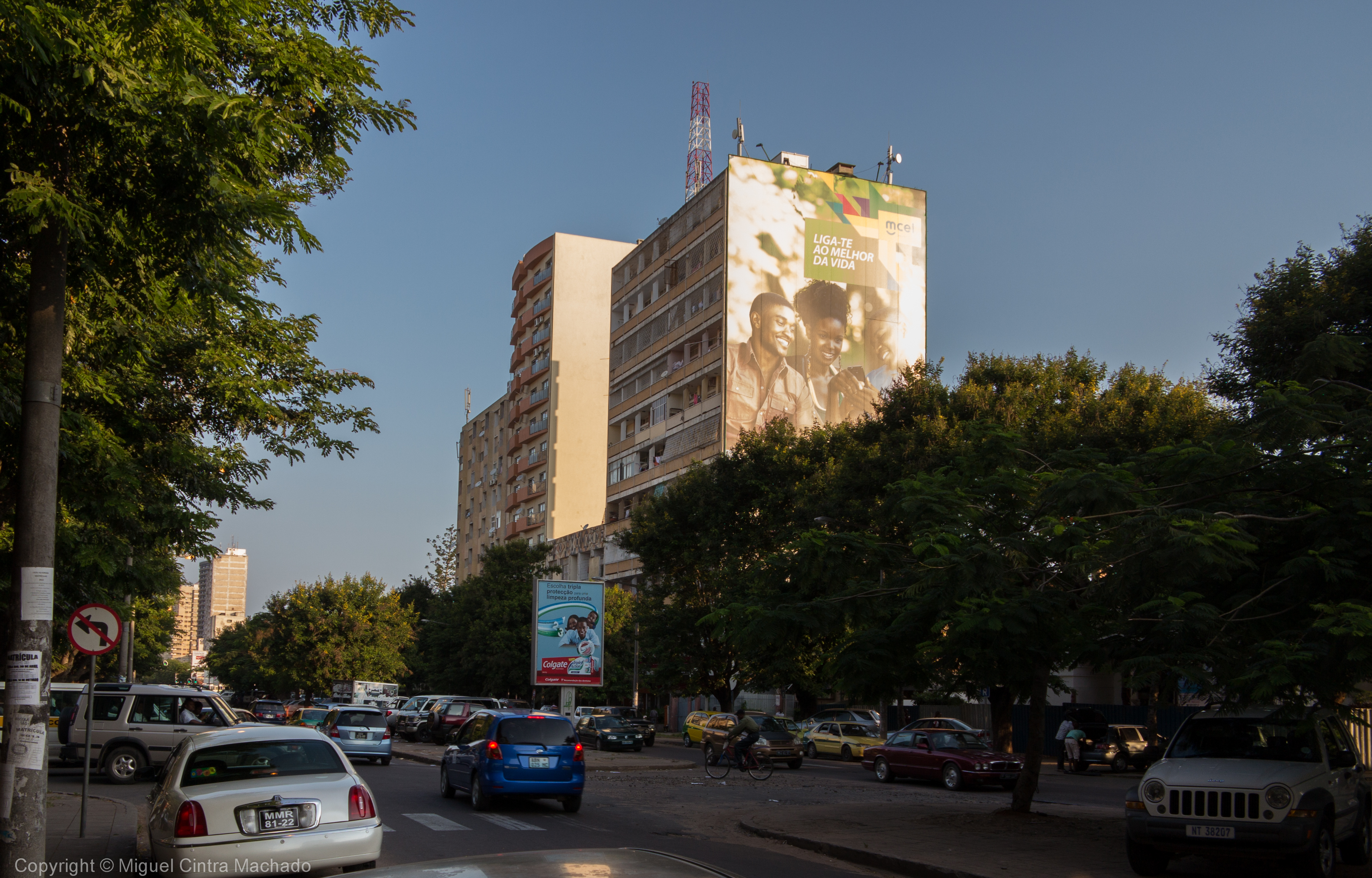 Avenida 24 de Julho, Maputo, Mozambique